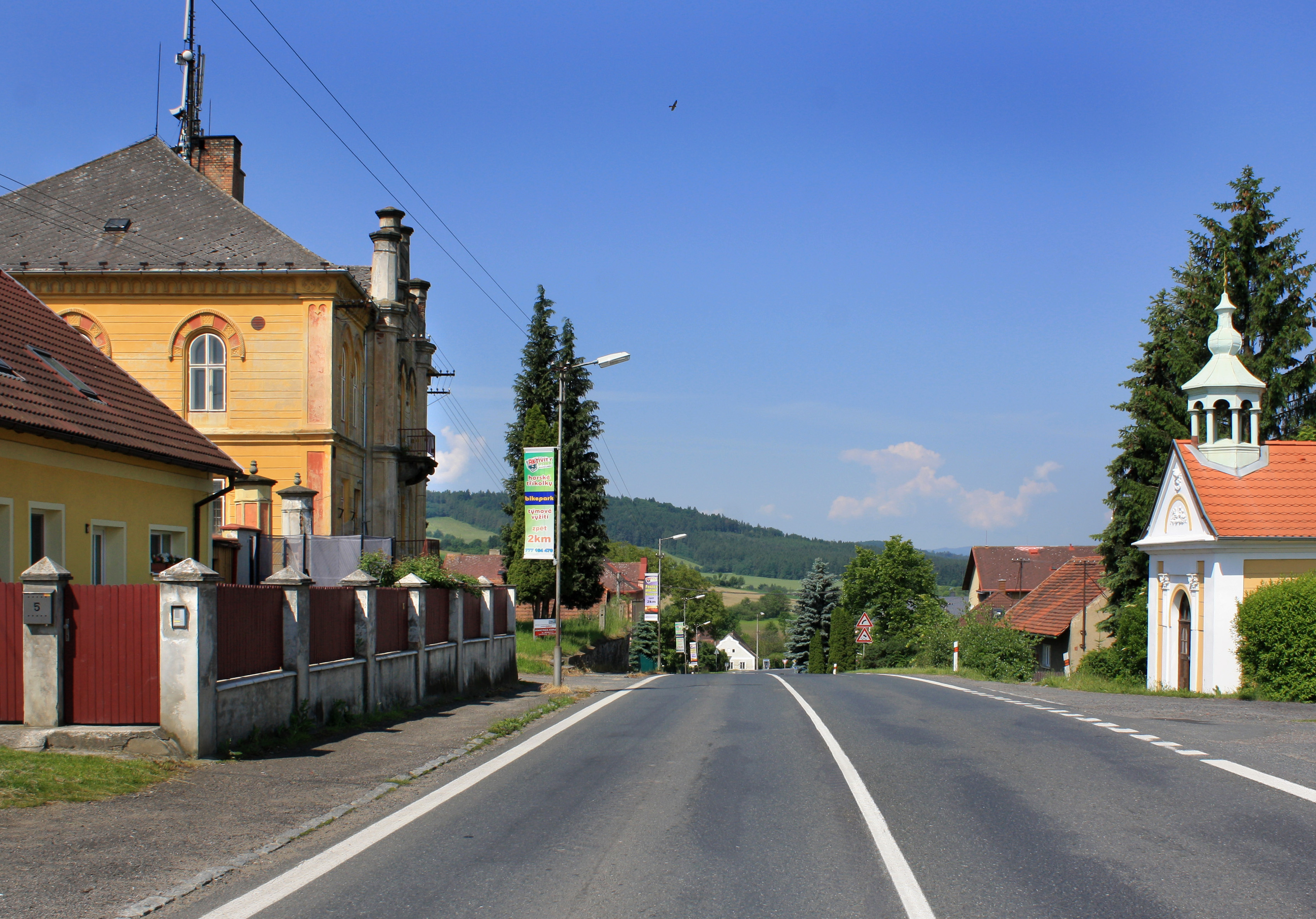 Middle part of Mochtín, Czech Republic